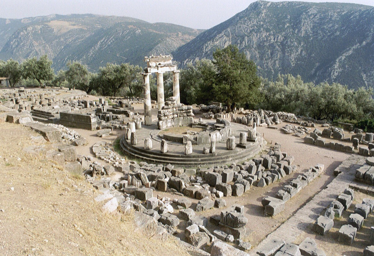 Delphi, Tholos